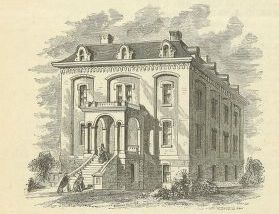 image of the college from the "Thirteenth Annual Announcement of the New England Female Medical College"